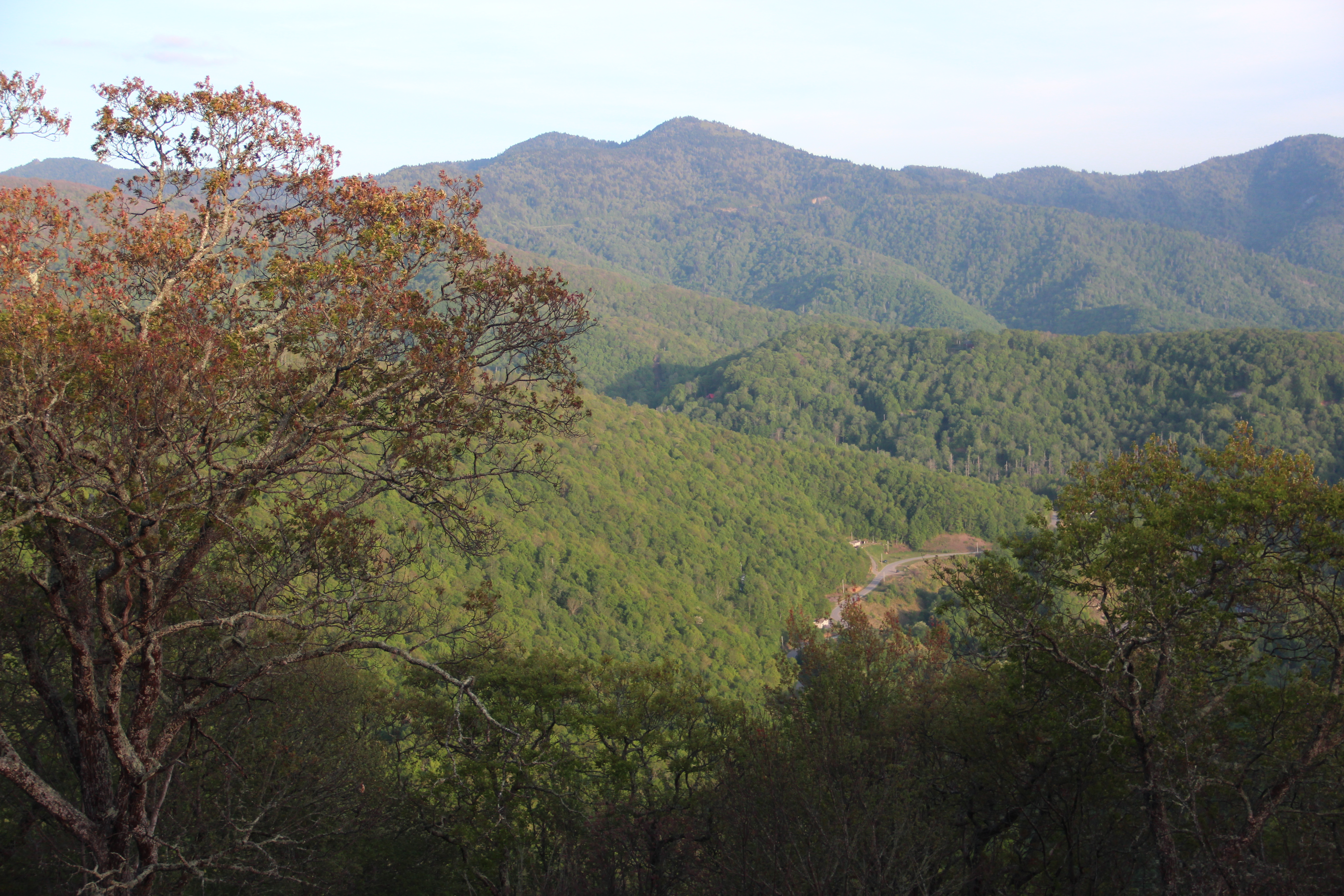 Waterrock Knob viewed from the Plott Balsams overlook